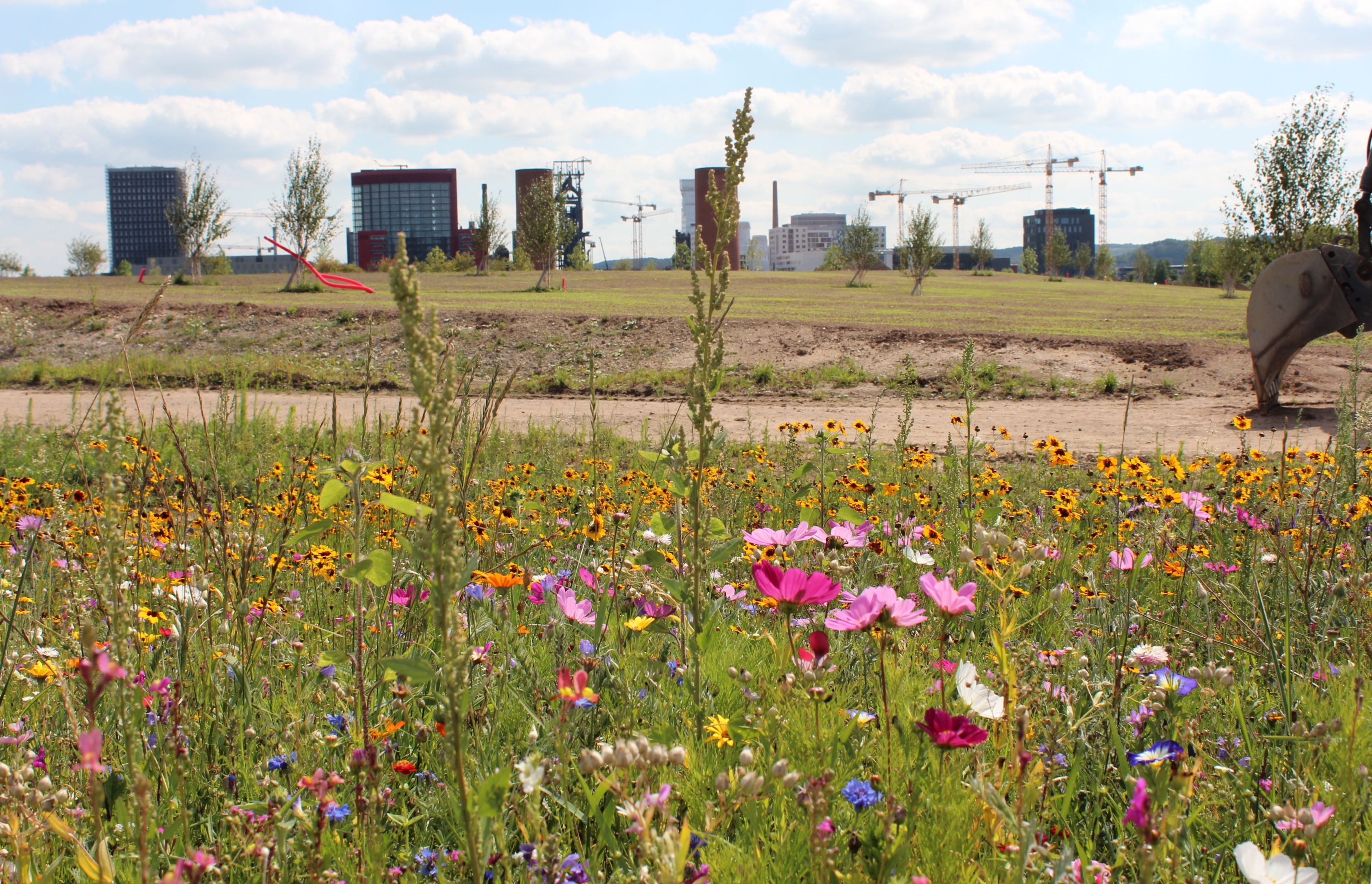 Parc Belval in the making, Summer 2013; Belval, Luxembourg.